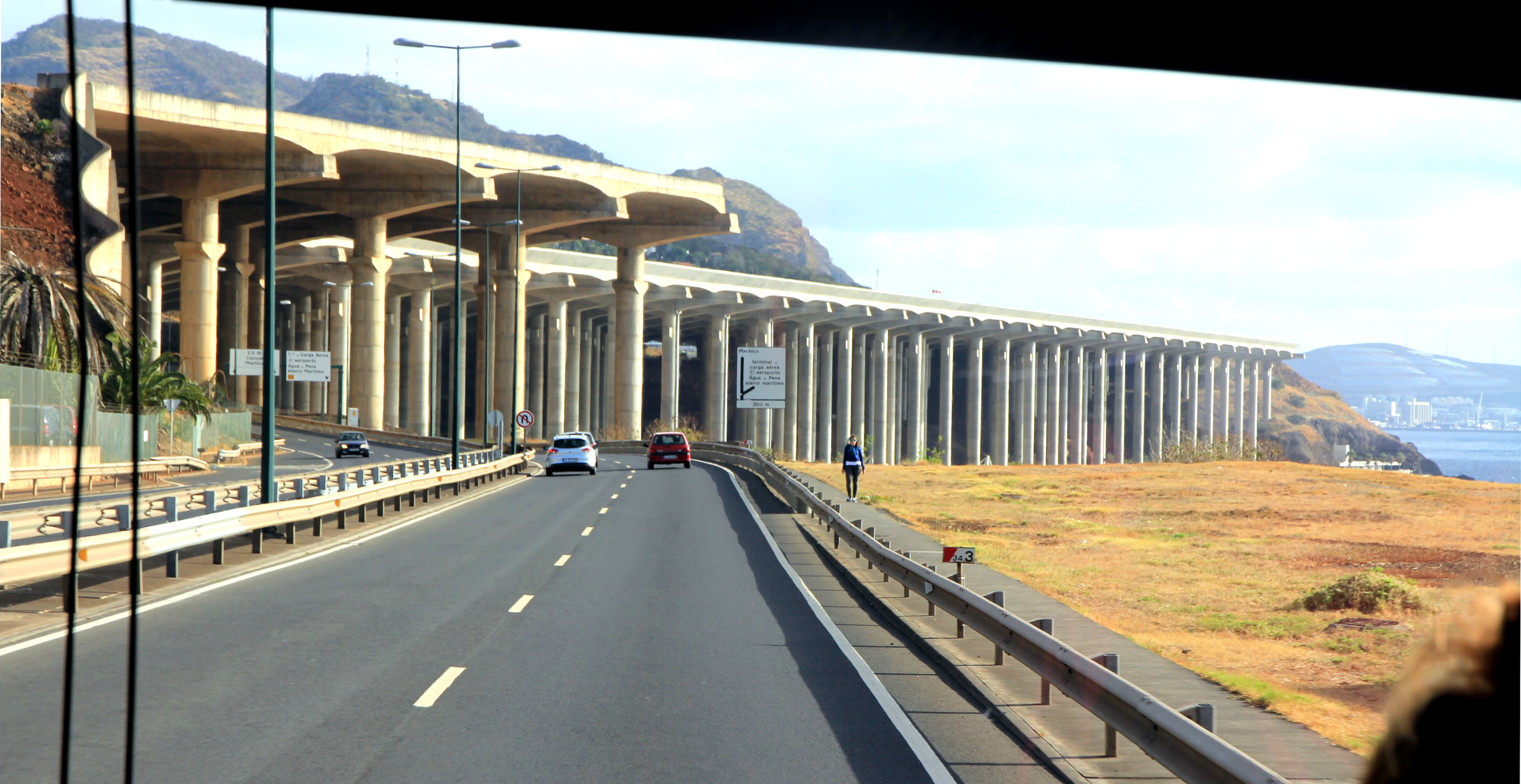 The view from a bus window from road comming under the runway of Madeira Funchal Airport built on concrete pillars extension, Madeira